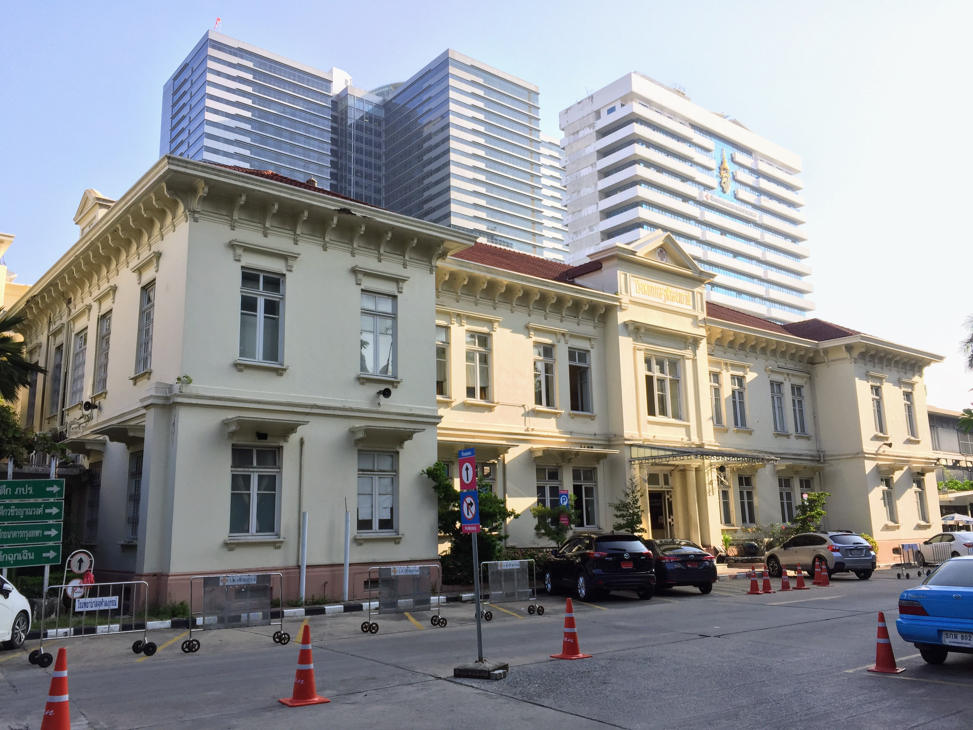 The first building and BhumisiriMangkhalanusorn Building of King Chulalongkorn Memorial Hospital, Thai Red Cross Society in October_2017.